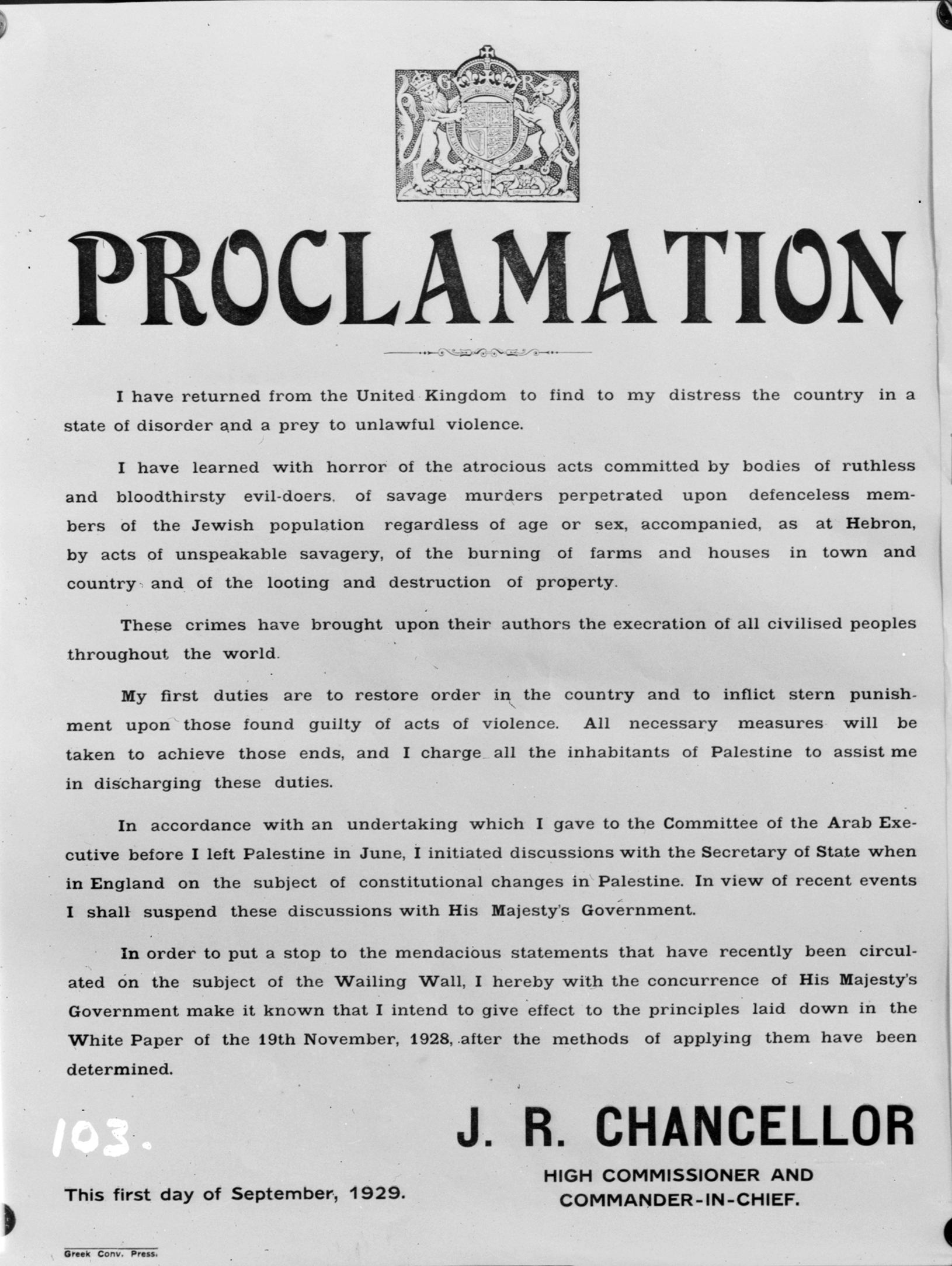 British administration statement on the 1929 Palestine riots (English, Arabic, Hebrew) The text in English was as follows:PROCLAMATIONI have returned from the United Kingdom to find to my distress the country in a state of disorder and a prey to unlawful violence.I have learned with horror of the atrocious acts committed by bodies of ruthless and bloodthirsty evil-doers, of savage murders perpetrated upon defenceless members of the Jewish population regardless of age or sex, accompanied as at Hebron, by acts of unspeakable savagery, of the burning of farms and houses in town and country and of the looting and destruction of property.These crimes have brought upon their authors the execration of all civilized peoples throughout the world.My first duties are to restore order in the country and inflict stern punishment upon those found guilty of the acts of violence. All necessary measures will be taken to achieve those ends, and I charge all inhabitants of Palestine to assist me in discharging these duties.In accordance with an undertaking which I gave to the Committee of the Arab Executive before I left Palestine in June, I initiated discussions with the Secretary of State when in England on the subject of constitutional changes in Palestine. In view of recent events I shall suspend these discussions with His Majesty's Government.In order to put a stop to the mendacious statements that have recently been circulated on the subject of the Wailing Wall, I hereby with the concurrence of His Majesty's Government make it known that I intend to give effect to the principles laid down in the White Paper of the 19th November, 1928, after the methods of applying them have been determined.J R Chancellor